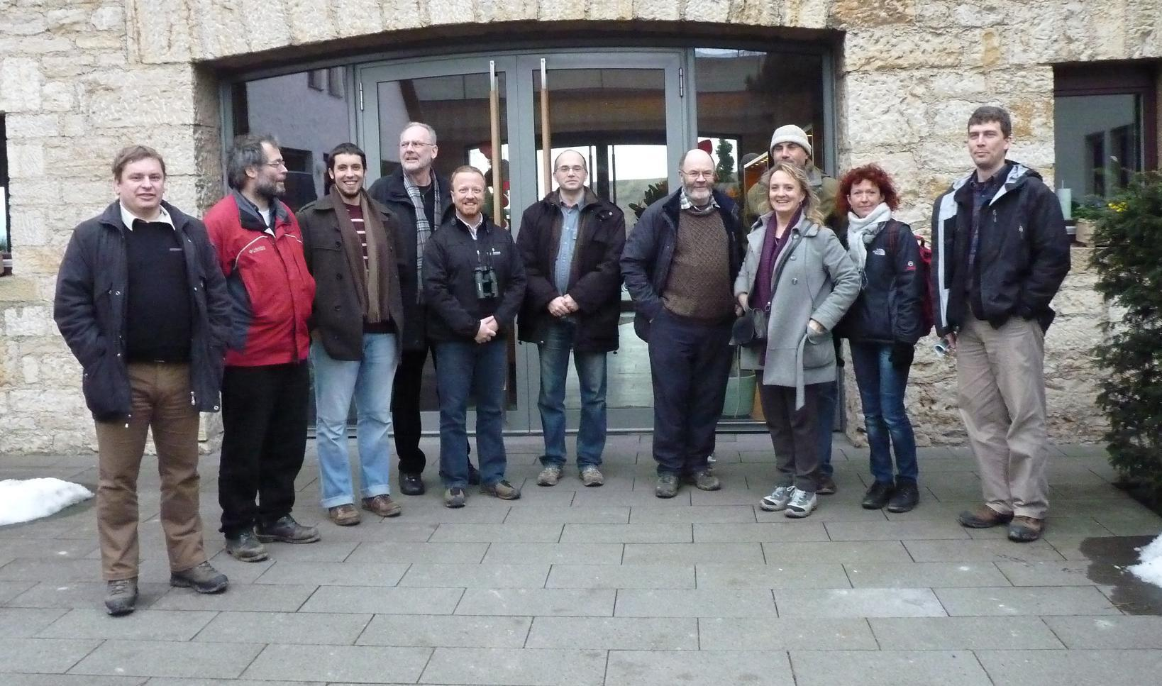 Society for Conservation Biology – Europe Section, Freiburg 2010 meeting